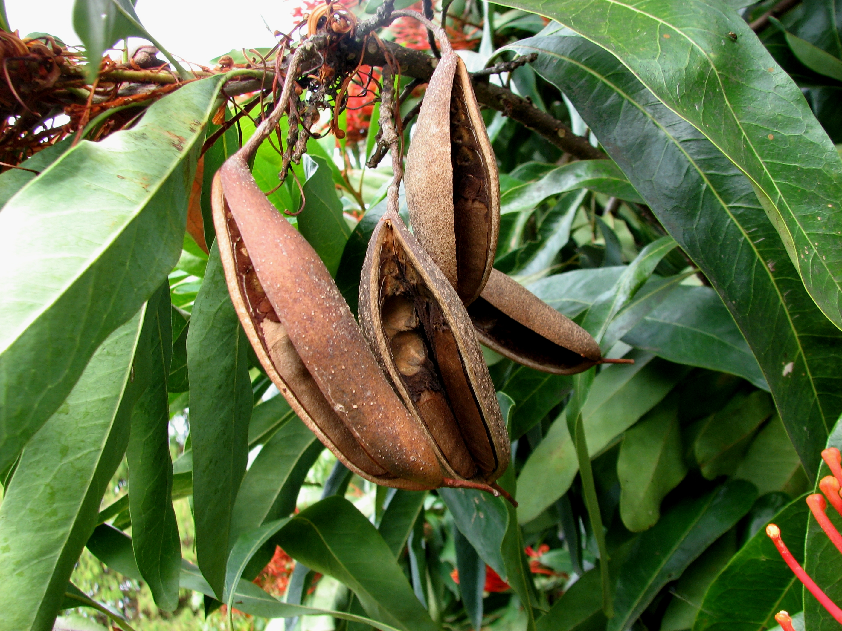 Alloxylon flammeum, cultivated, City Botanic Gardens, Brisbane, Australia